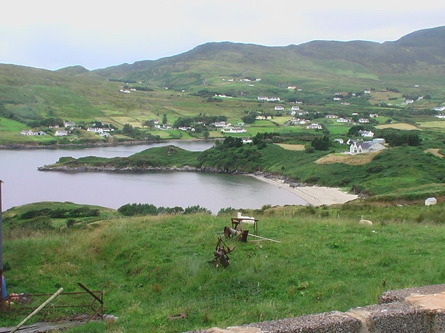 Derrylahan area. View from a farm stay.